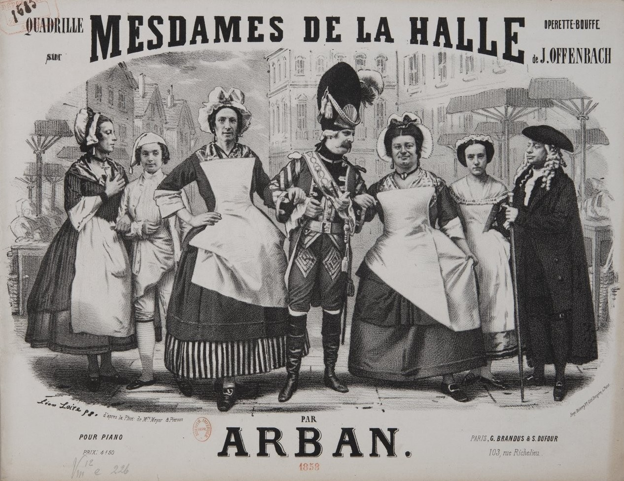 Quadrille arr. by Jean-Baptiste Arban from Jacques Offenbach's operetta Mesdames de la Halle, title page with engraving by Léon Loire. From the left: Mesmacre (Mme Beurrefondu), Lise Tautin (Croûte-au-pot), Léonce (Mlle Poiretapée), C.-F. Duvernoy (Raflafla), Désiré (Mme Madou), Mlle Chabert (Ciboulette), Guyot (le commissaire)